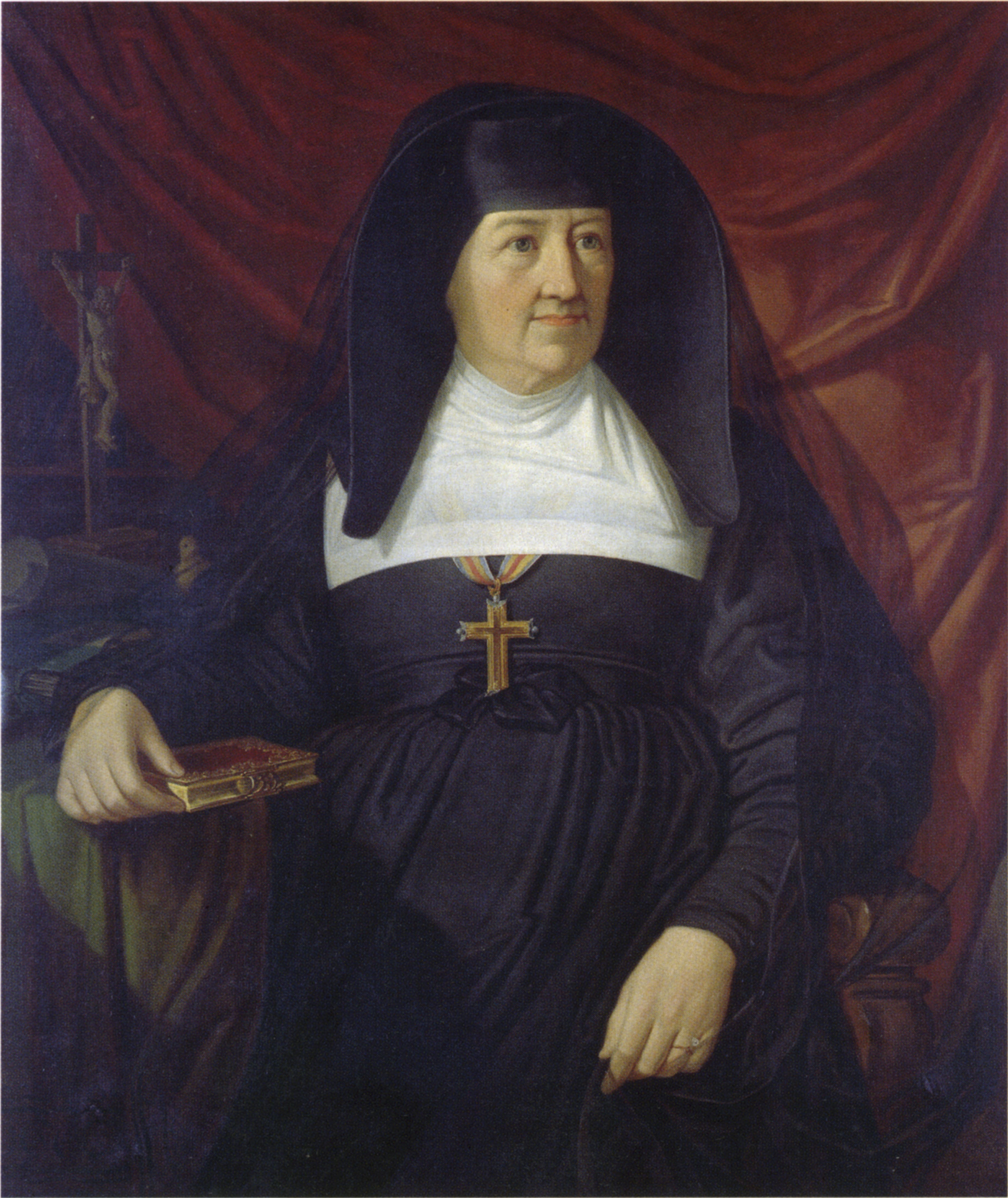 Portrait of an abbess of the monastery of St. Ursula, Freiburg i.Br., Germany. She lived 1780-1860.